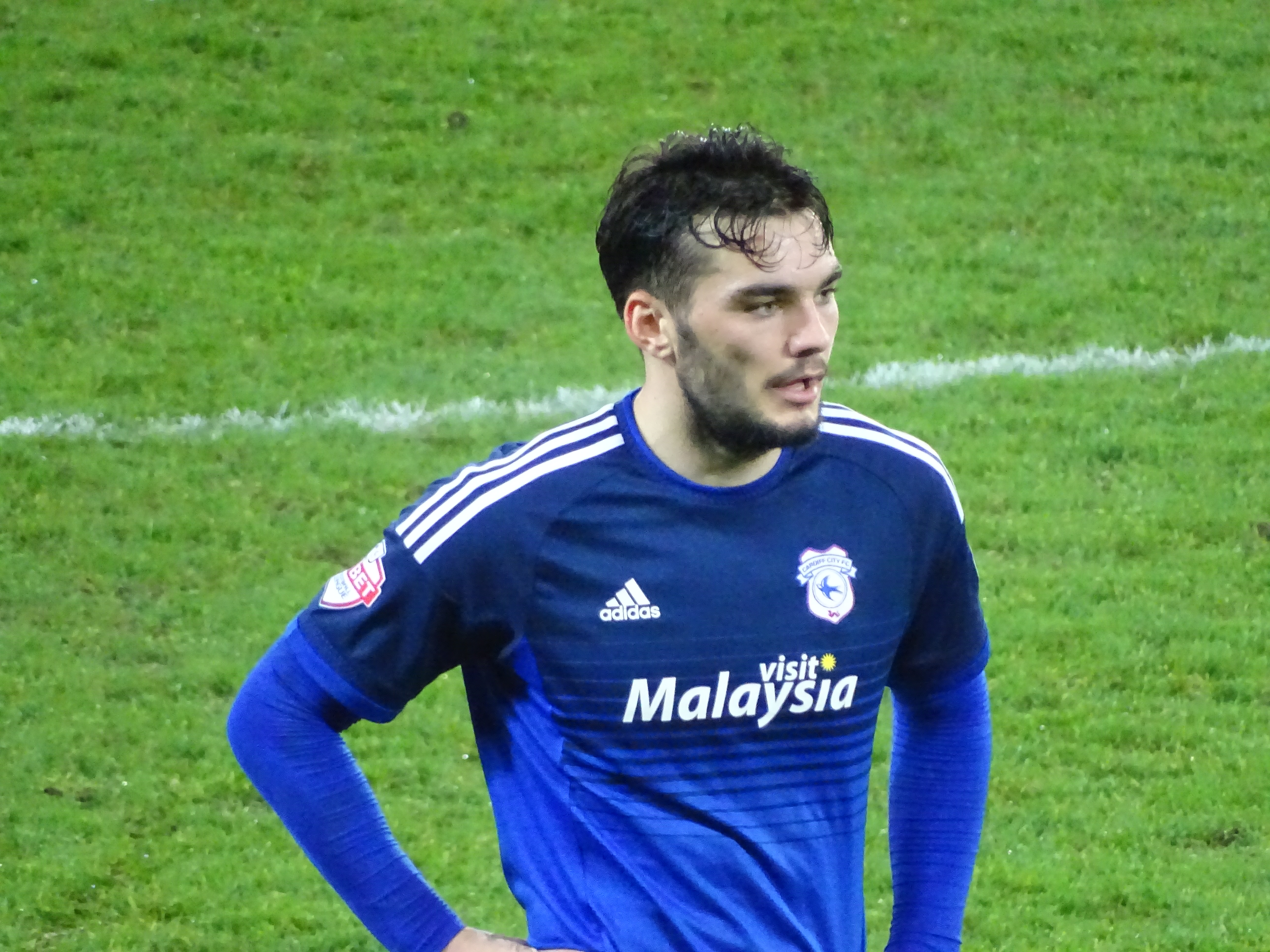 Footballer Tony Watt in 2015.